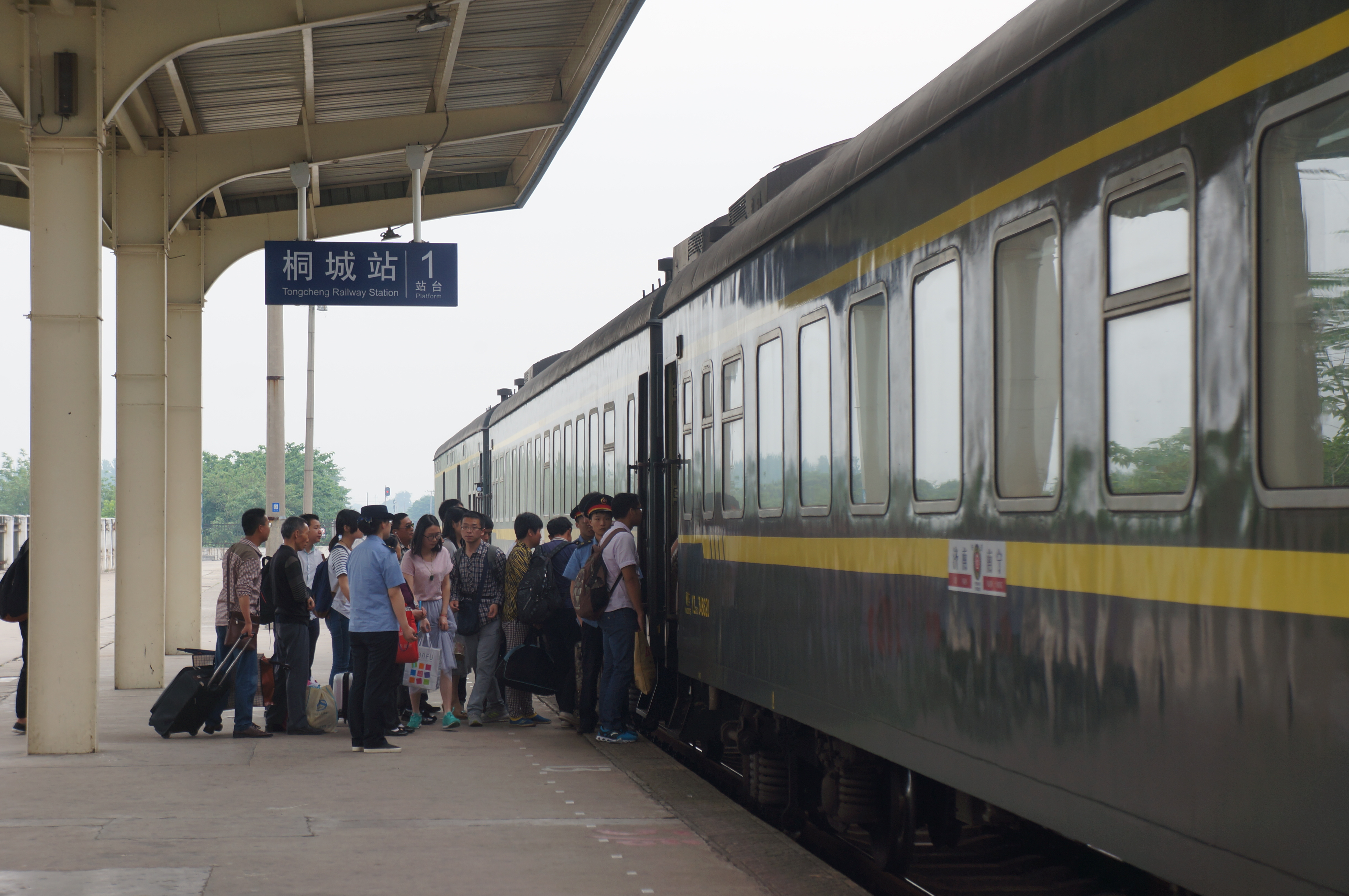 201705 Platform 1 of Tongcheng Station